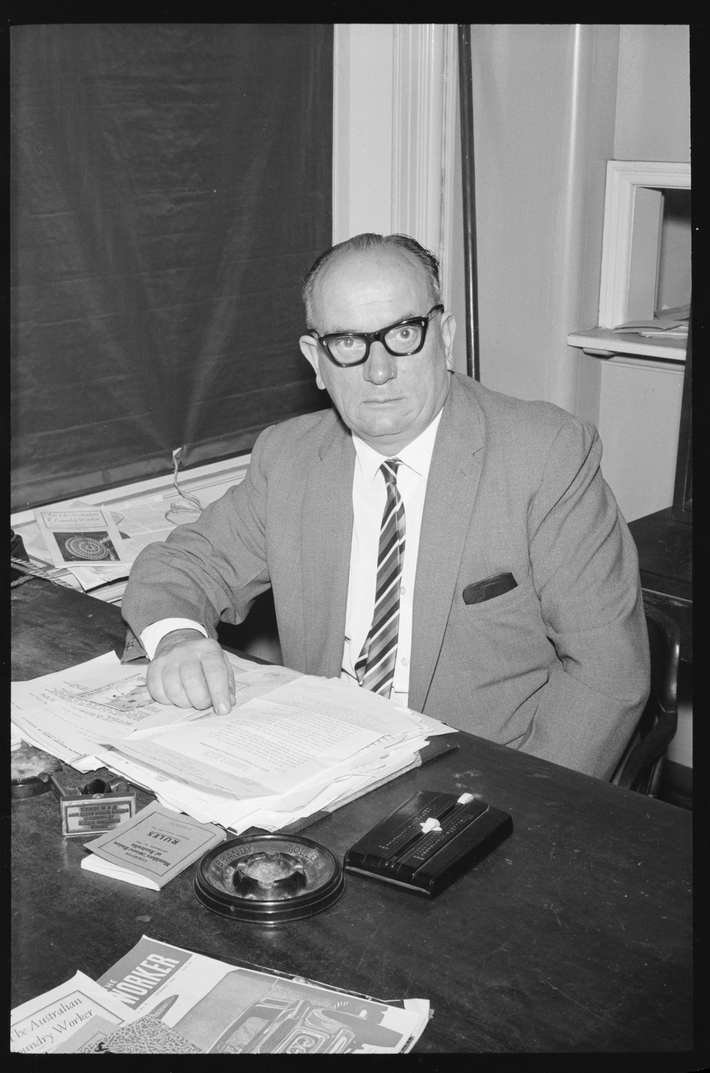 Photograph of Ralph Spooner, NSW state secretary of the FMMUA, seated at a desk, with a copy of the FMMUA rules and the union's publication 'The Australian Foundry Worker' in front of him, taken ca. 1964-65. The photograph is from a collection of negatives from the 'Tribune' archives, the newspaper of the Communist Party of Australia.